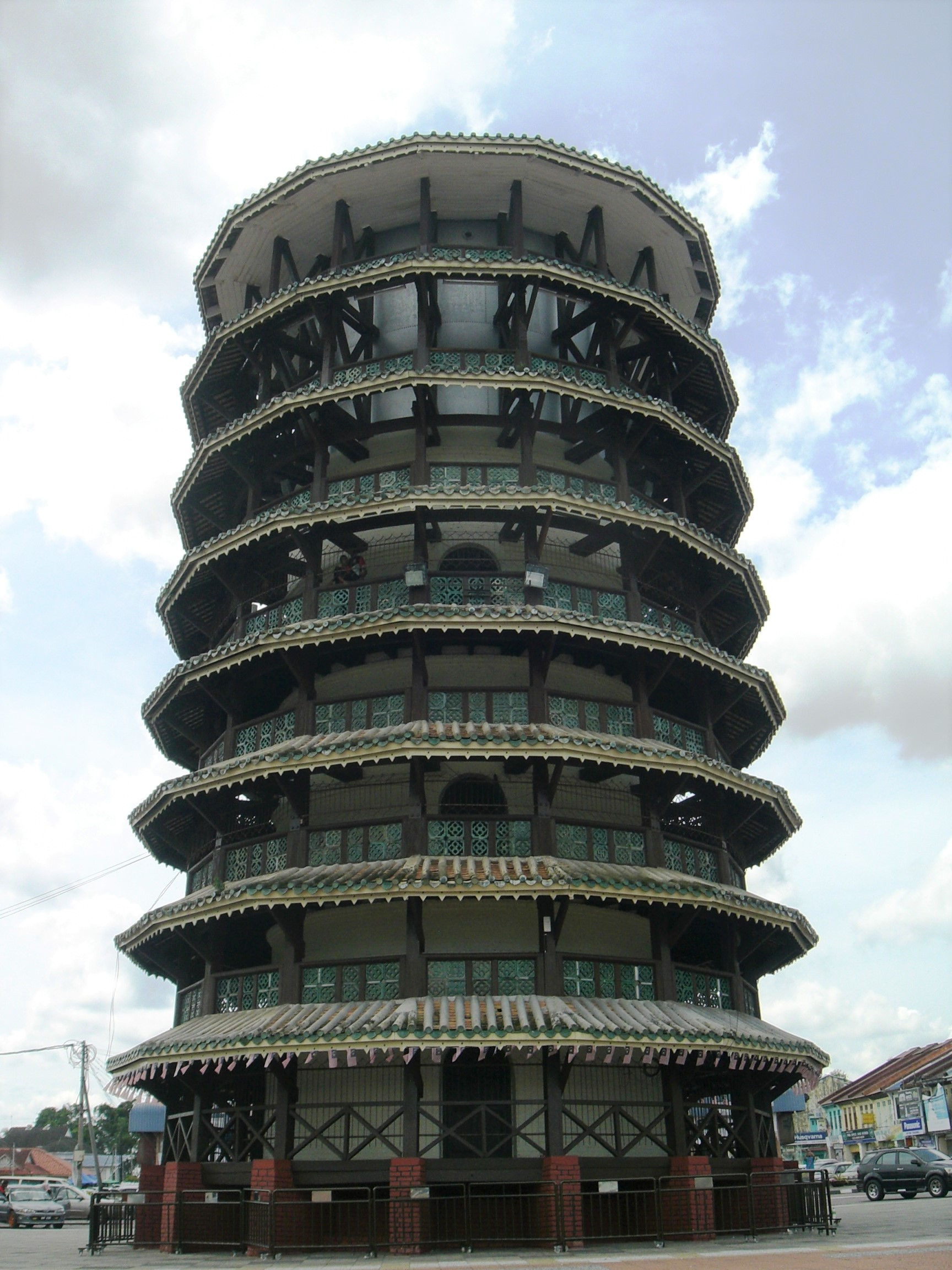 Leaning Tower of Teluk Intan